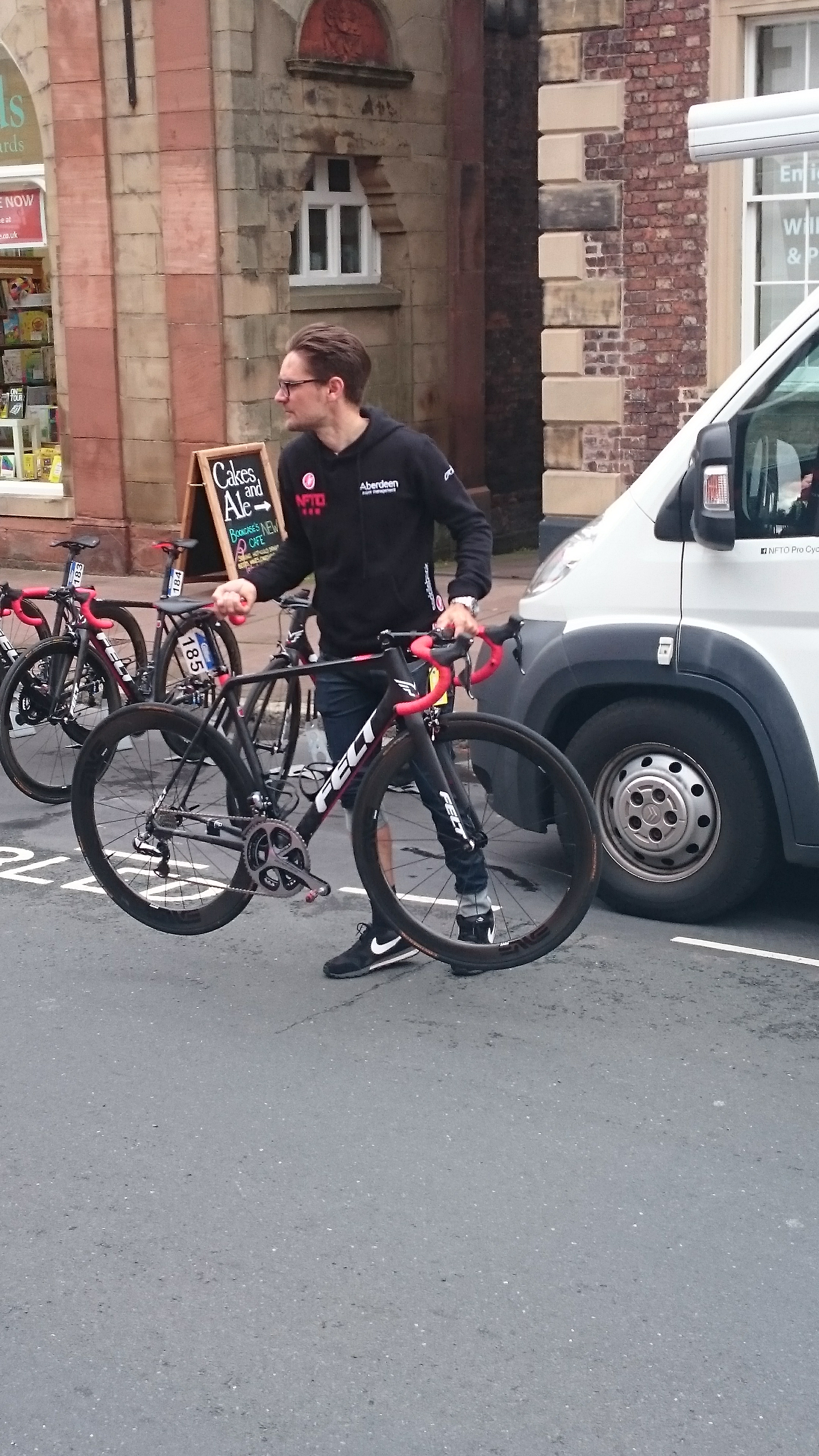 Tom Barras (NFTO directeur sportif), pictured before Stage 2 of the 2016 Tour of Britain in Carlisle on 5 September 2016.